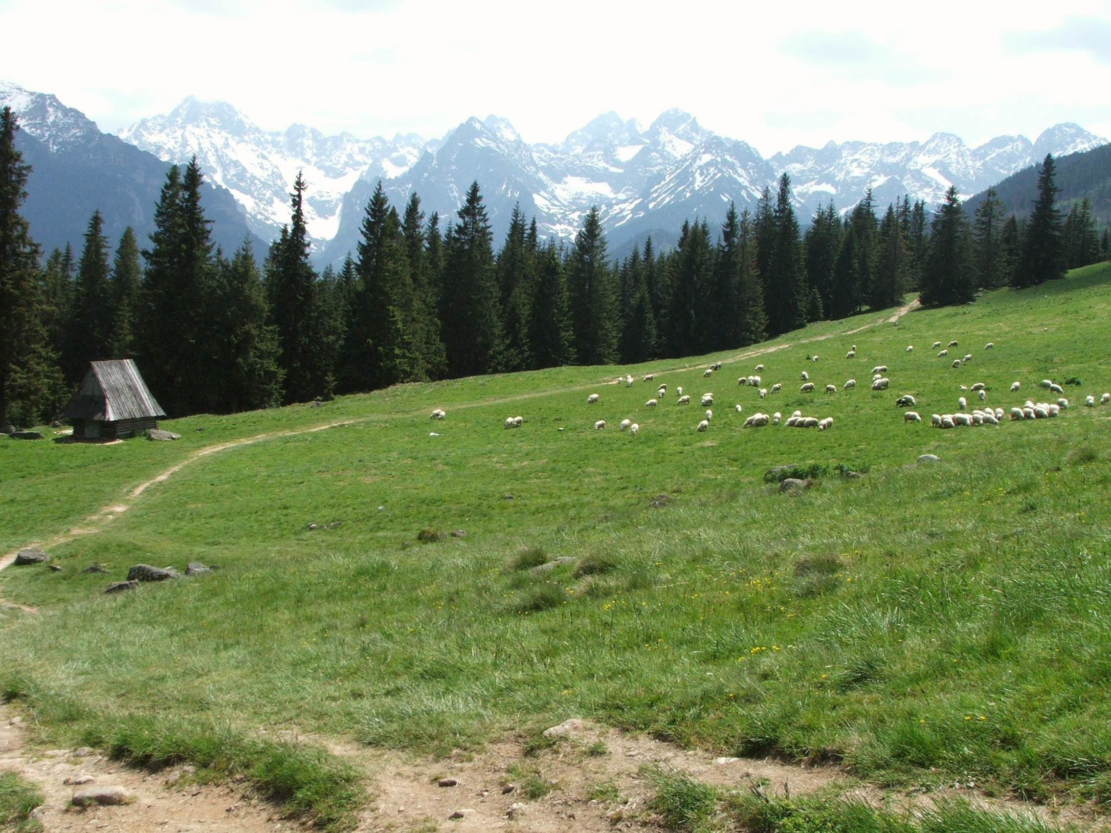 Rusinowa Polana (Tatra Mountains)